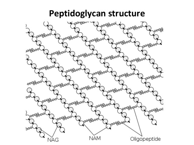 Διάγραμμα που δείχνει τη δομή σύνδεσης πεπτιδογλυκάνης. Μια εναλλασσόμενη αλυσίδα Ν-ακετυλομουραμικού οξέος (ΝΑΜ) και Ν-ακετυλογλυκοζαμίνης (NAG) έχει ολιγοπεπτιδικές αλυσίδες που σχηματίζουν εγκάρσιες συνδέσεις.